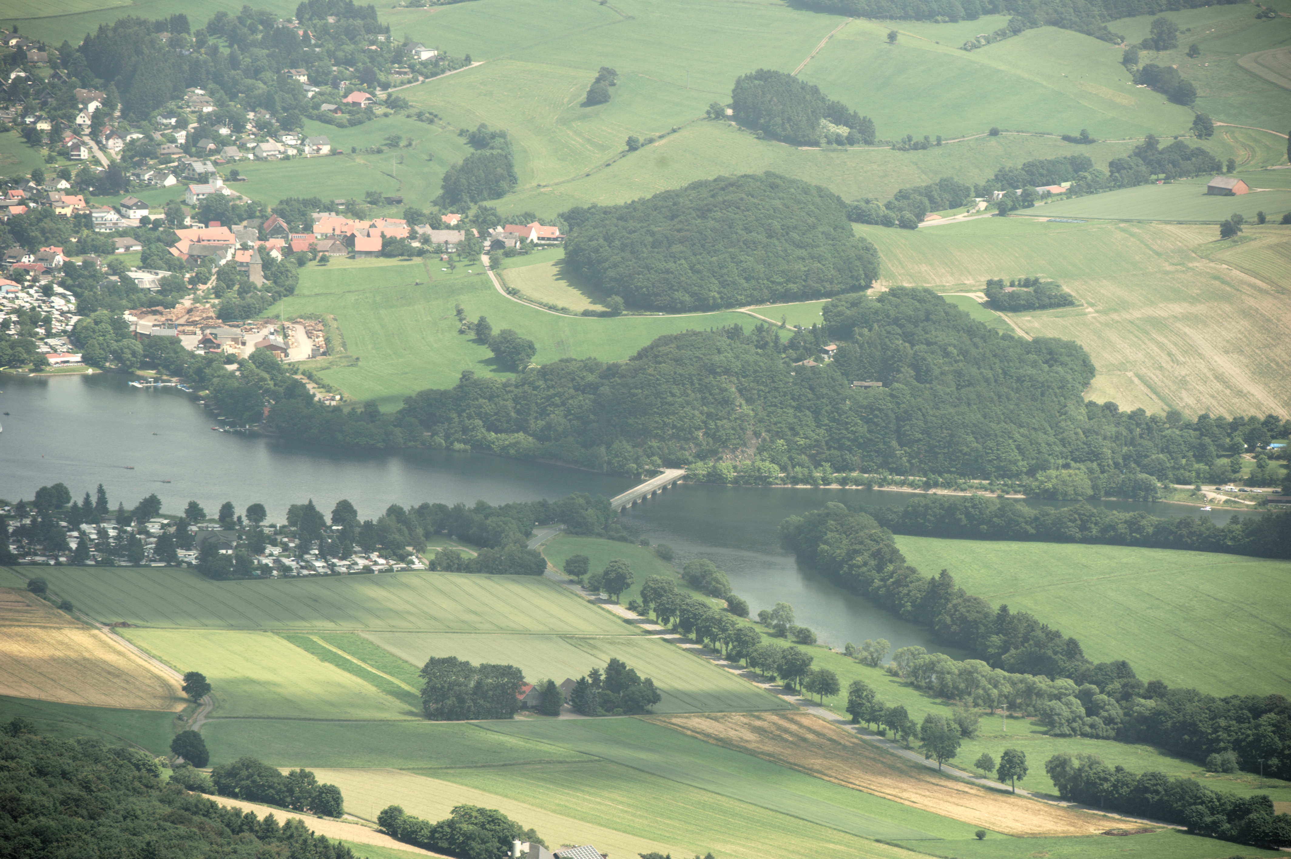 Fotoflug Sauerland-Ost, Diemelsee mit Brücke, Campingplatz, Am Rasenberg, Heringhausen The making of this document was supported by the Community-Budget of Wikimedia Germany.